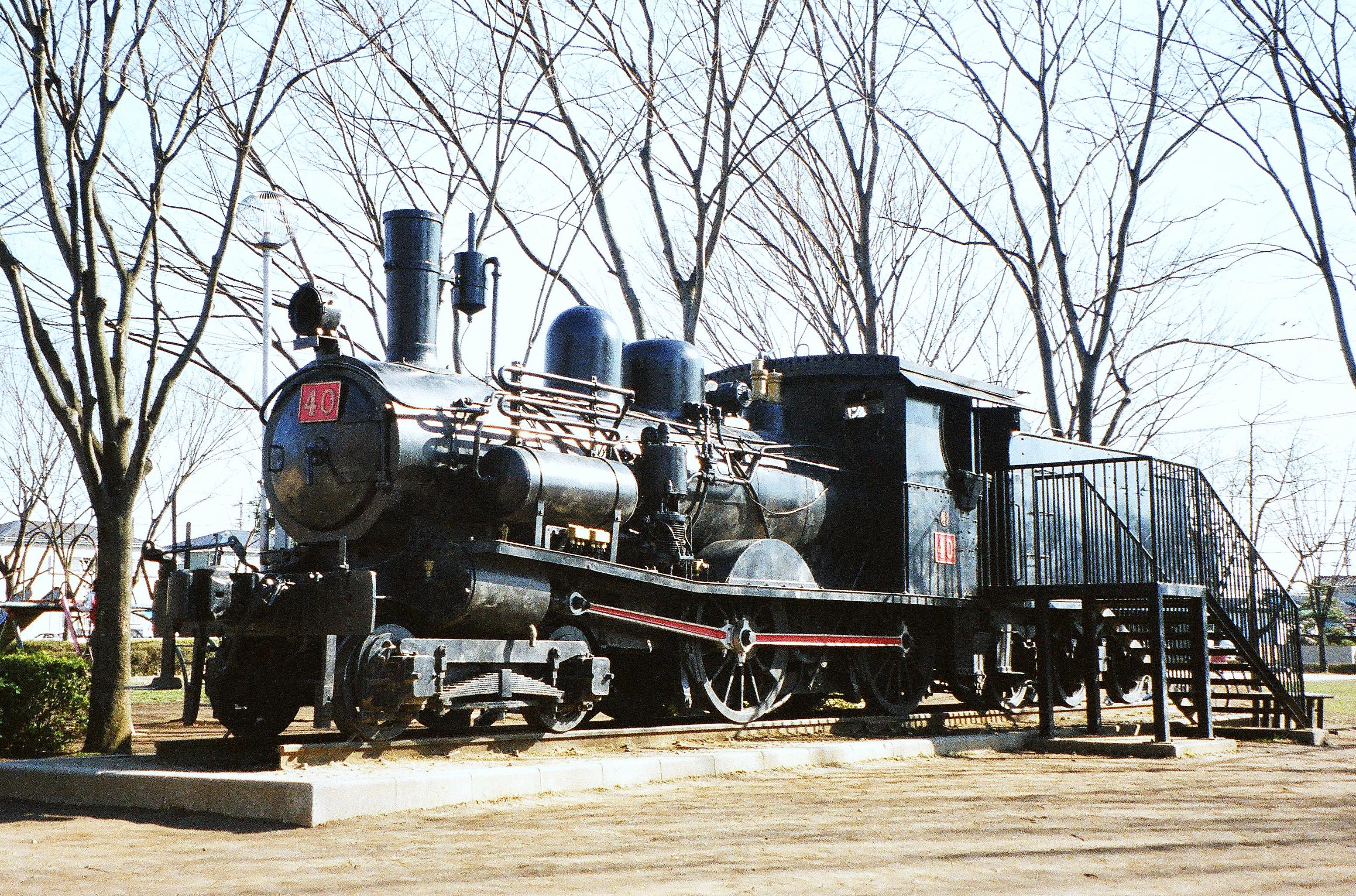 Tobu Railway No.40 Steam Locomotive.